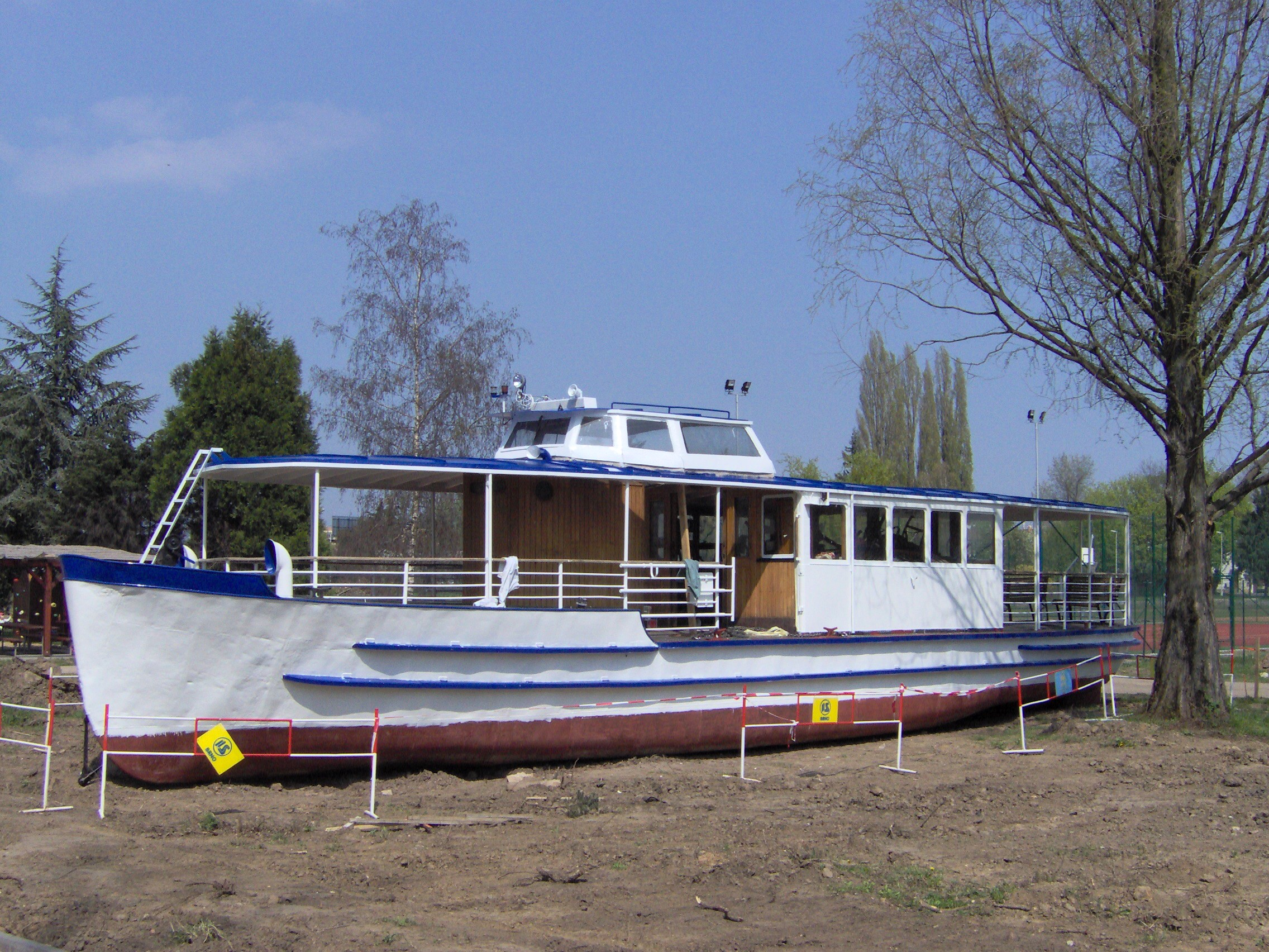 Pionýr ship (1950–2008 at the Brno reservoir) in Brno, Czech Republic